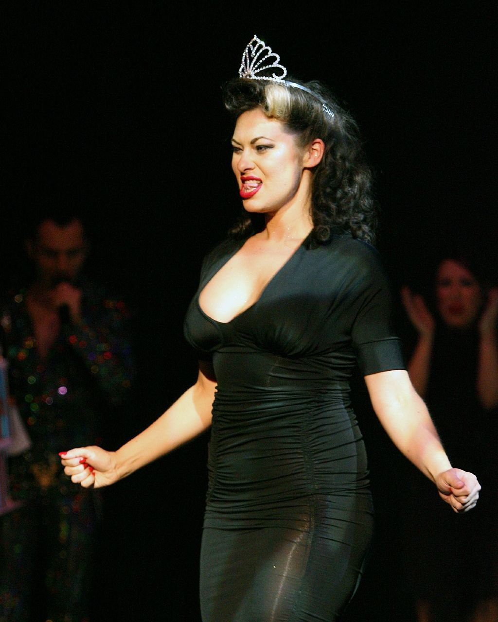 Immodesty Blaize, Miss Exotic World 2007.